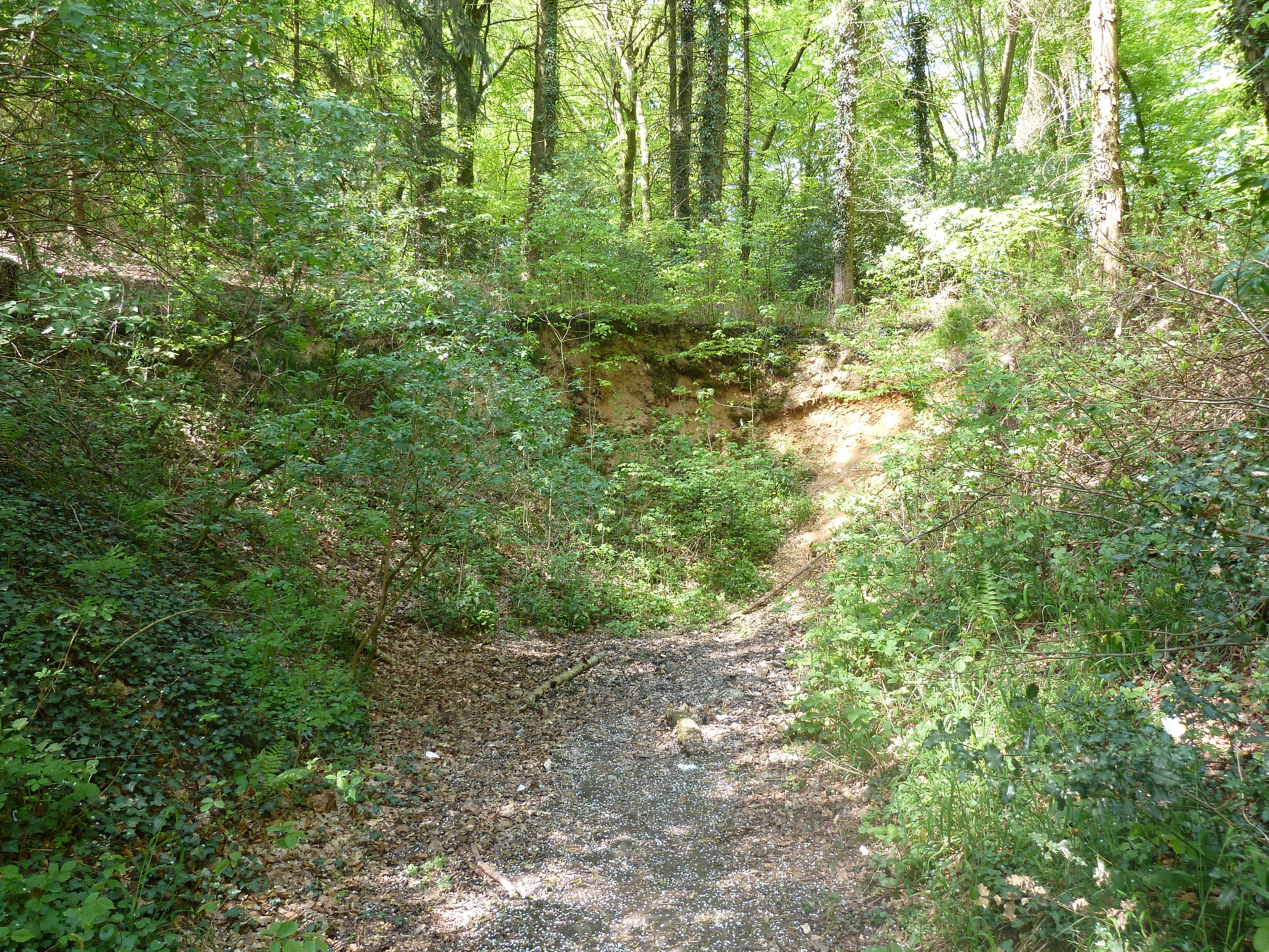 Grindgroeve Bissen, Gulpen-Wittem, Limburg, the Netherlands